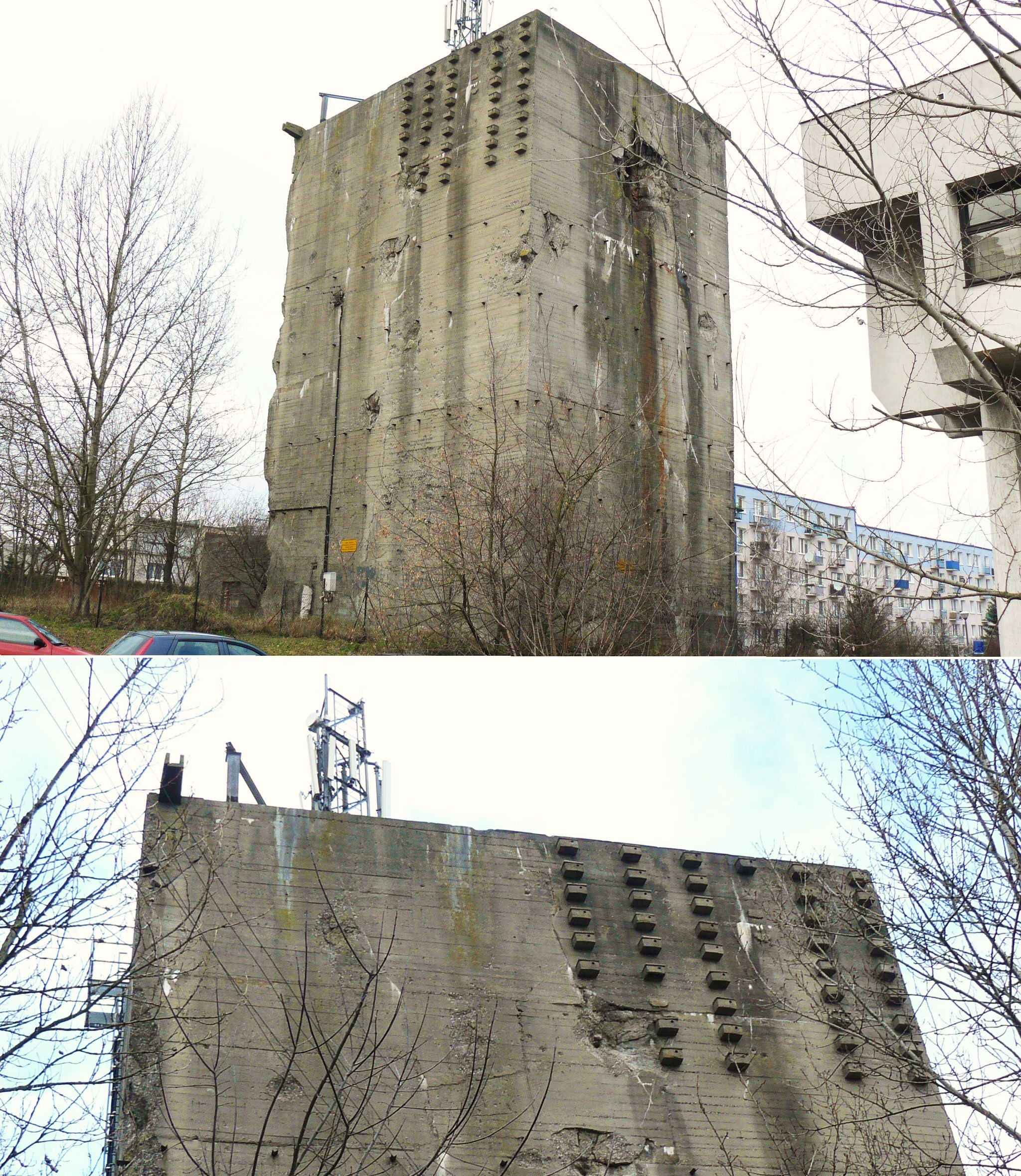 Bunker, Poznan, Kosmonautow District. 1944.